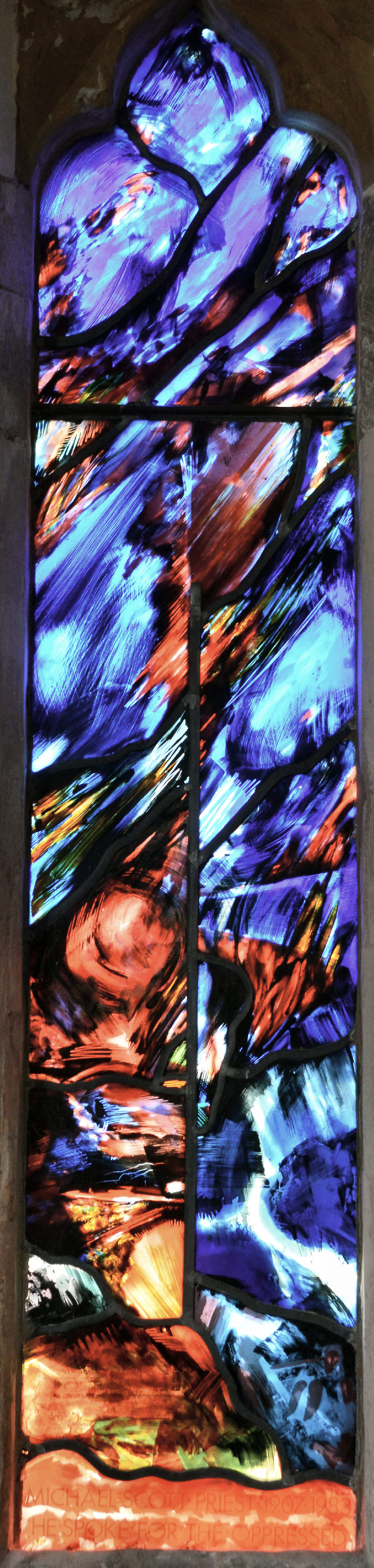 Kingston near Lewes, St Pancras Church, Michael Scott window. M Cotter. Dedicated in 1992 by Archbishop Desmond Tutu.It commemorates the Rev Michael Scott, vicar of the parish, who had earlier been active in South Africa against Apartheid.